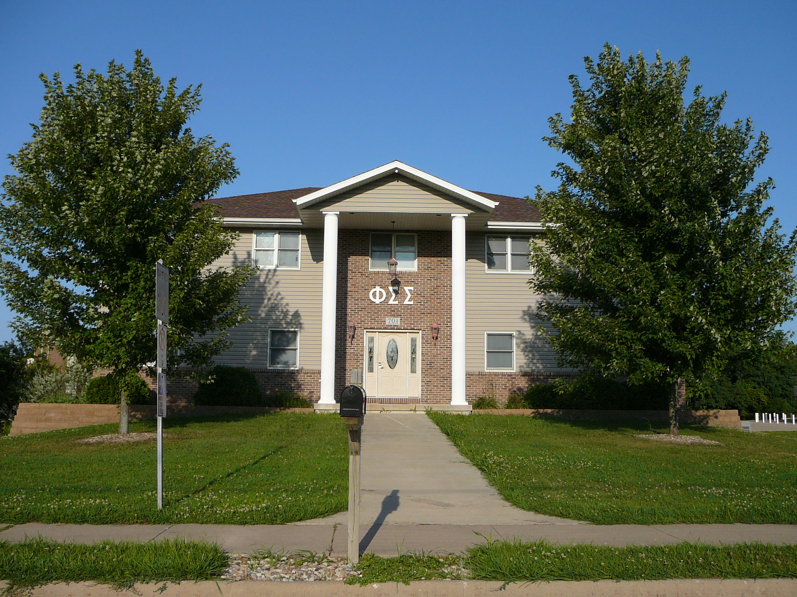 A photo of the Epsilon Psi Chapter house of Phi Sigma Sigma near the campus of Western Illinois University, on Wigwam Hollow in Macomb, Illinois